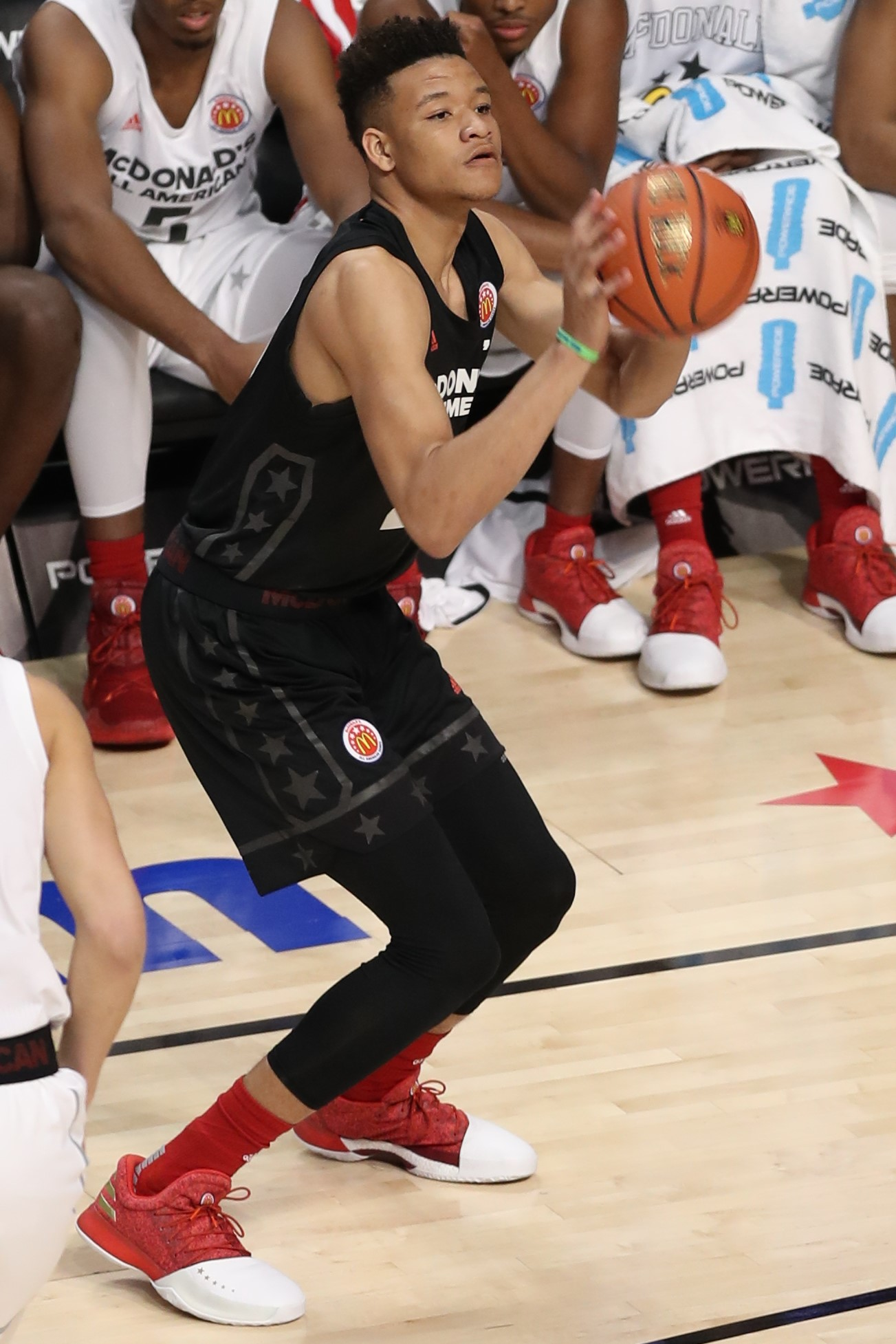 Kevin Knox II at the w:2017 McDonald's All-American Boys Game